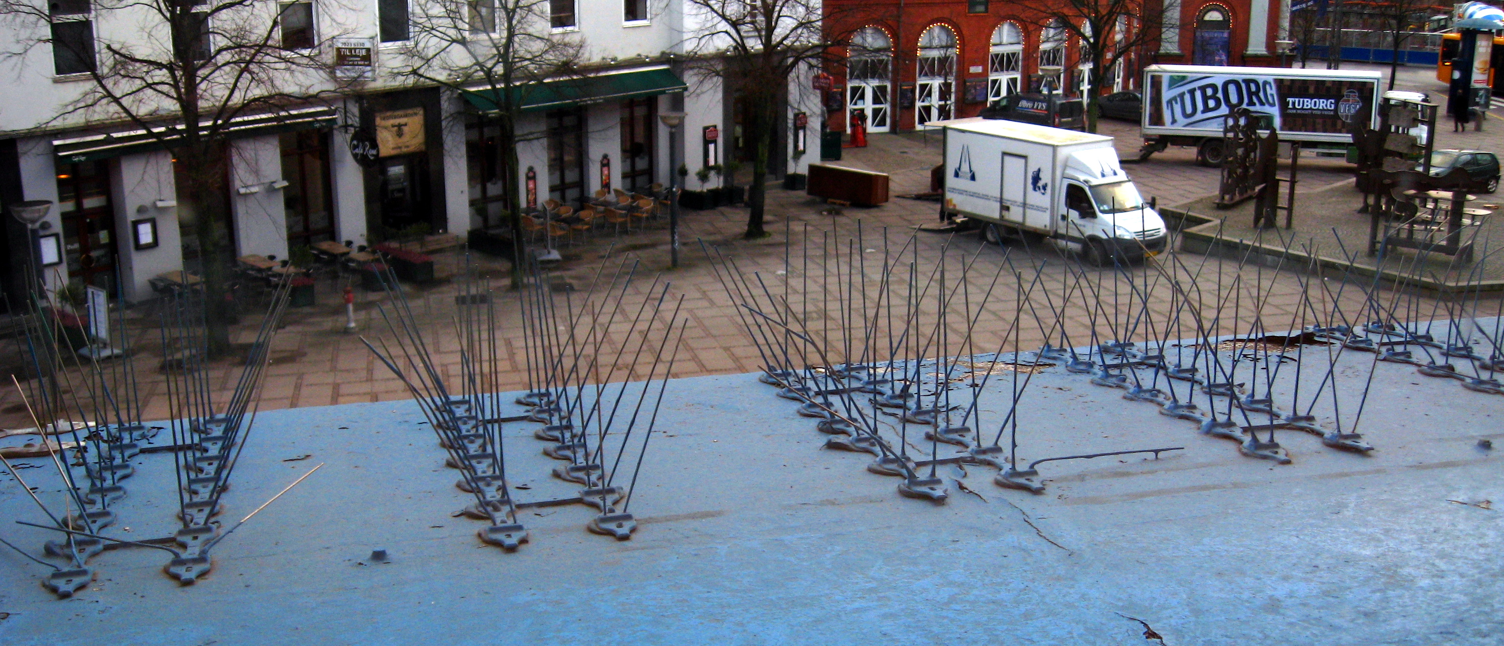 Bird control spikes, anti-roosting spikes, roost modifications